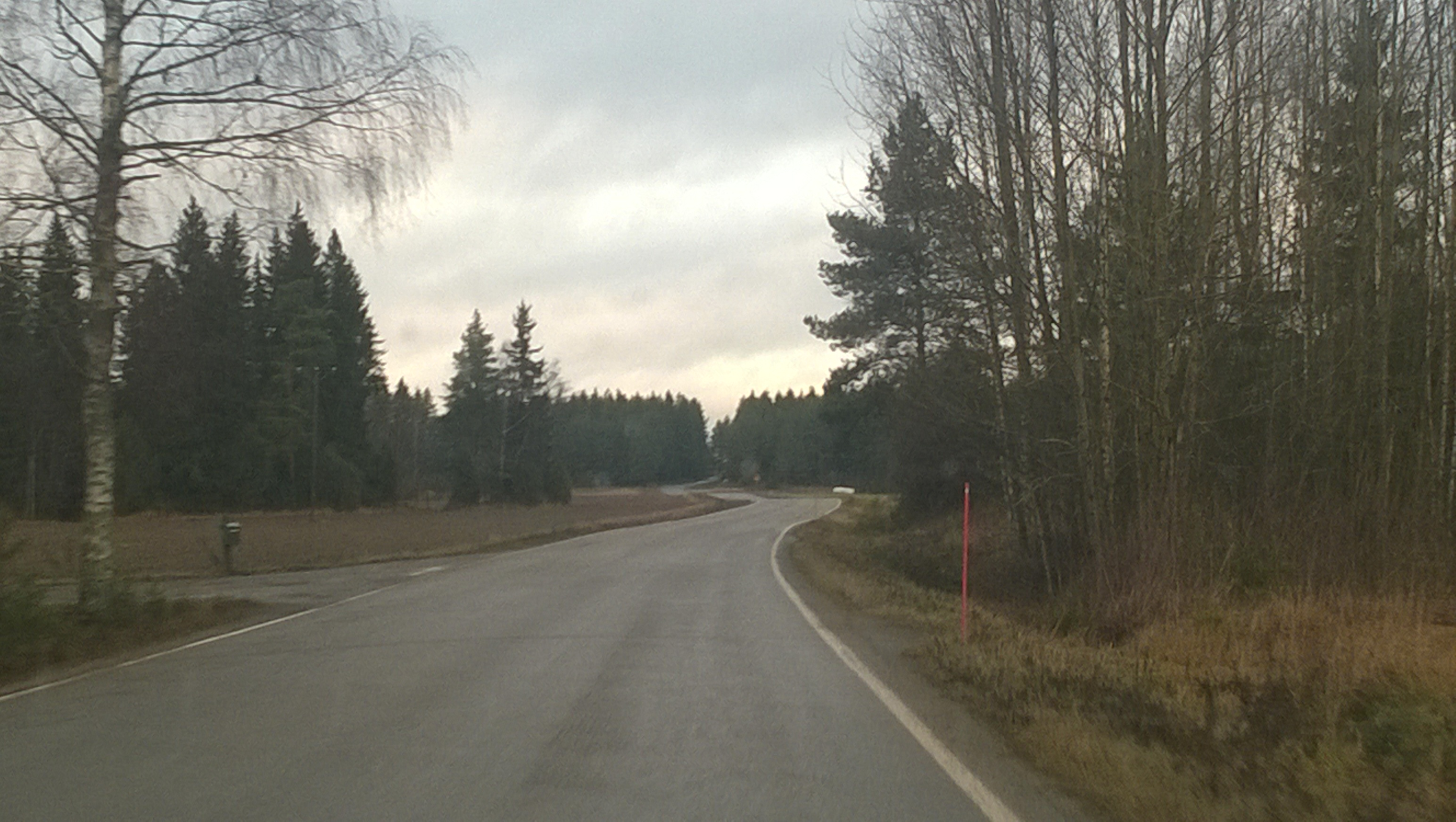 Finnish connecting road 2475 near the crossroad of Plättilänmaantie in Kokemäki. The road runs from the crossroad of connecting road 2470 to the crossroad of connecting road 2460.